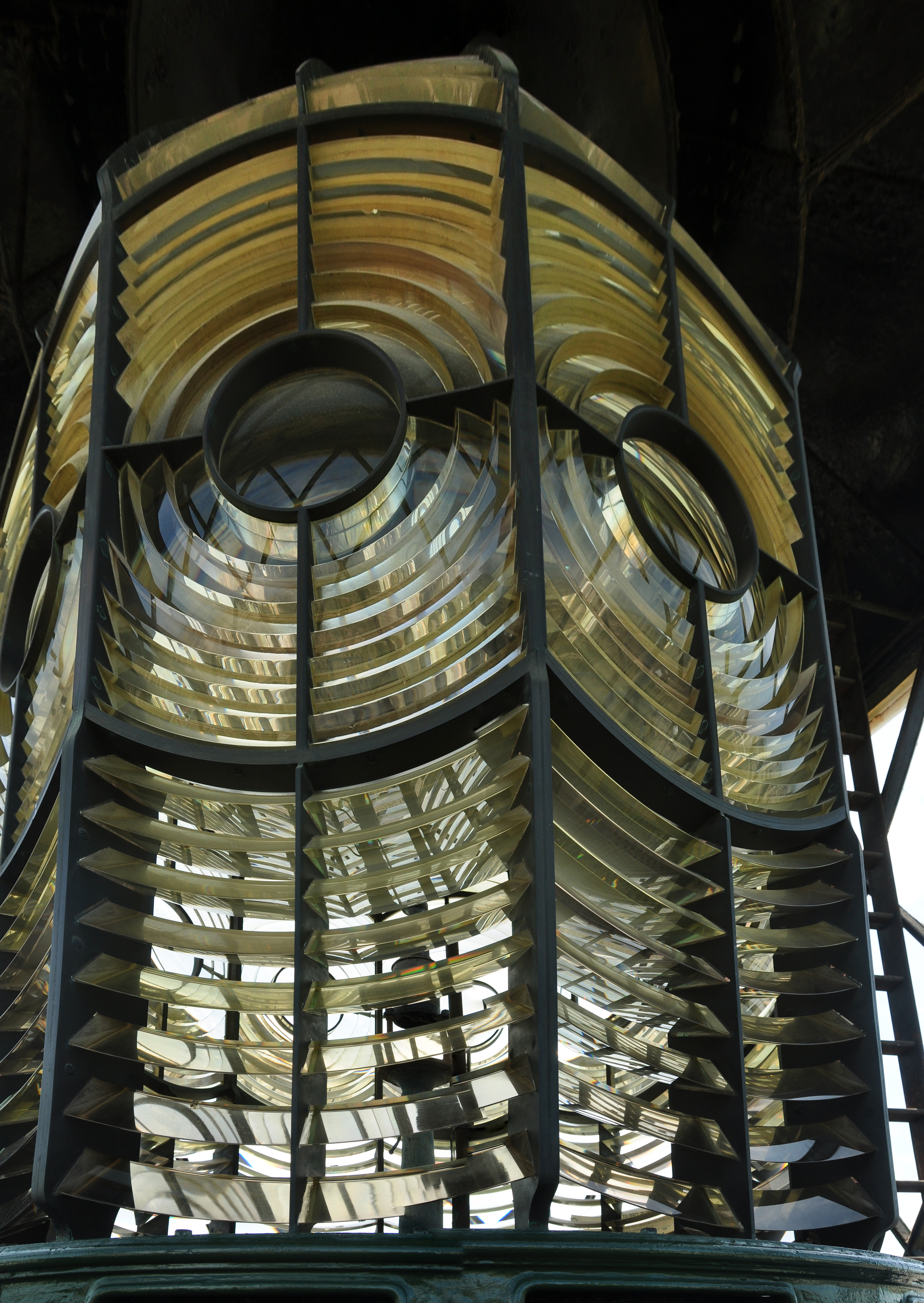 The Great Lens in Dungeness Old Lighthouse, Kent.